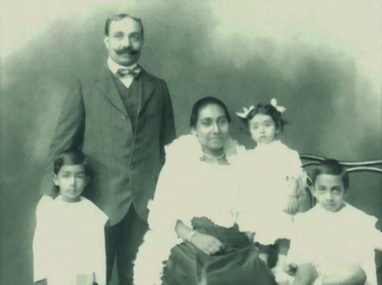 Photograph of J. R. Jayewardene with his Parents and Siblings.